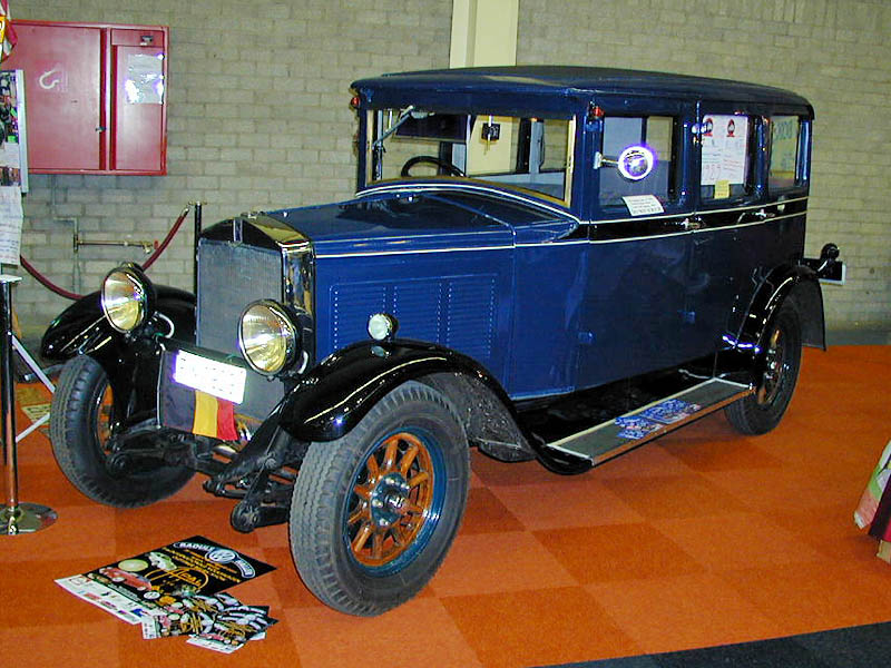 sedan model with a 4-cylinder engine, made in Belgium by Fabrique Nationale d'Armes de Guerre; left front-side view